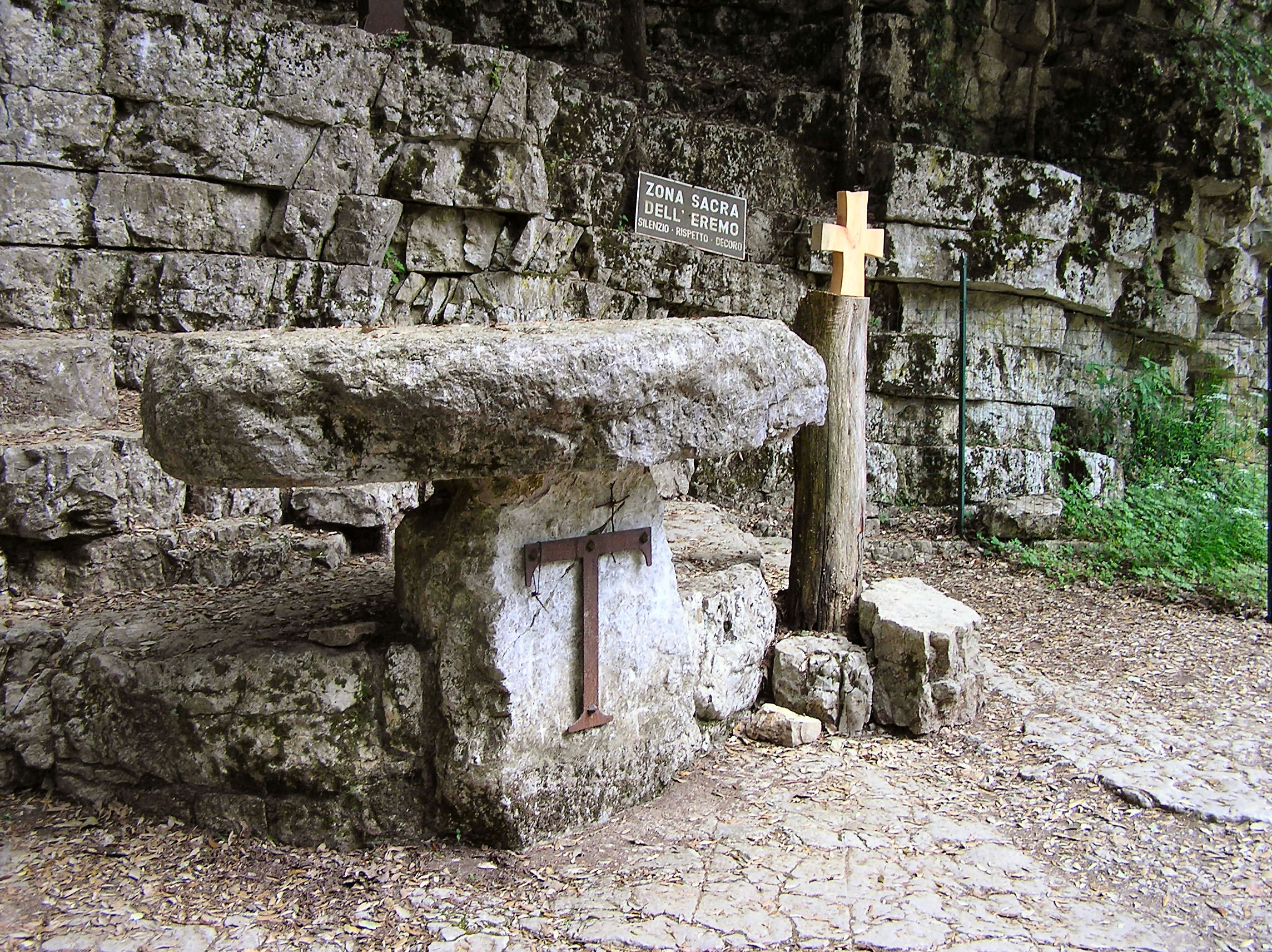 Assisi, Eremo delle Carceri, Chapel in The Woods.